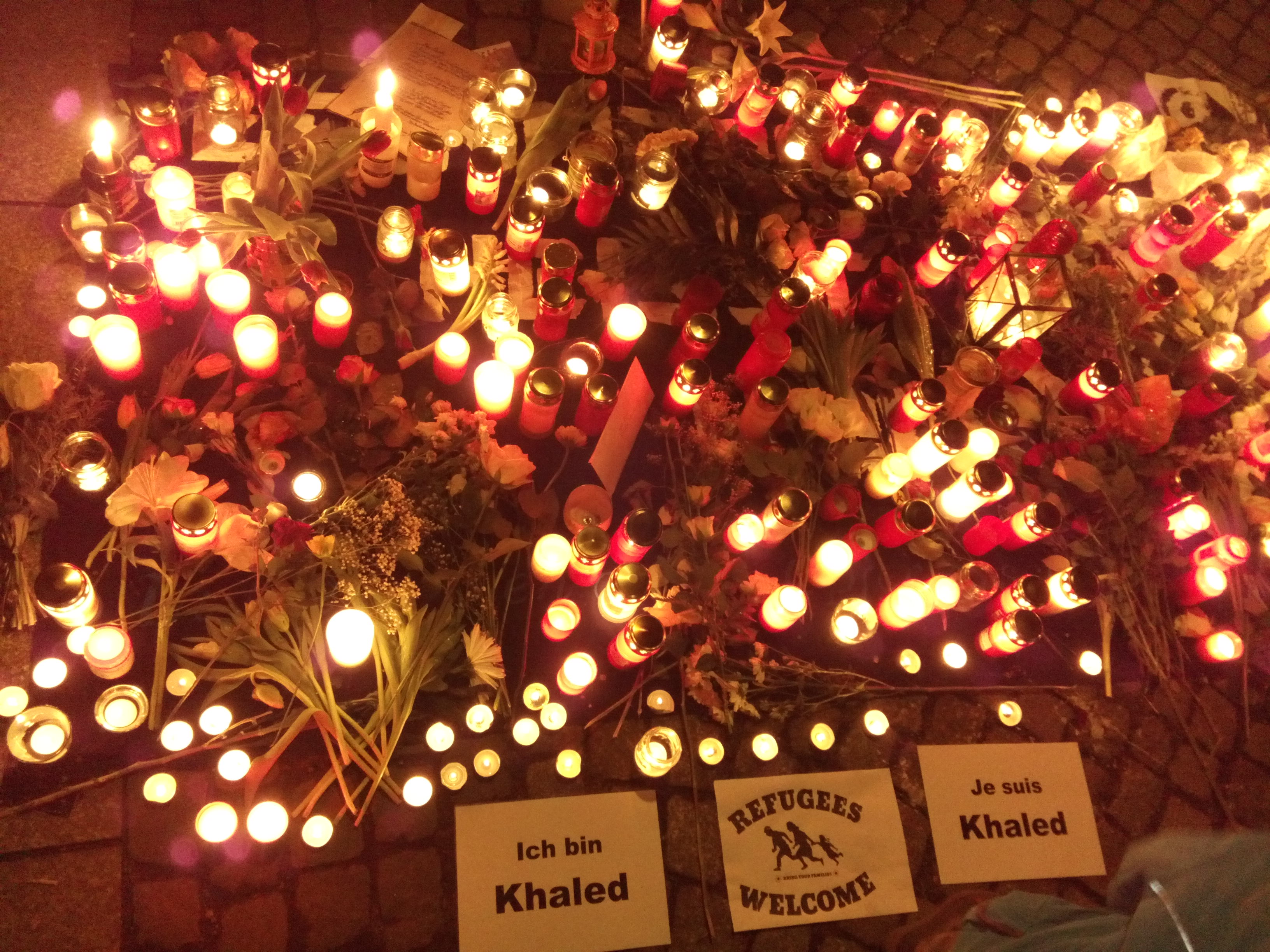 vigil in dresden at 17 jan 2015 in commemoration of the murder of khalid idris bahray